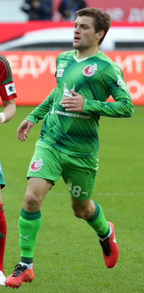 Ruslan Kambolov with FC Rubin Kazan in a game against FC Lokomotiv Moscow on 3 April 2016.